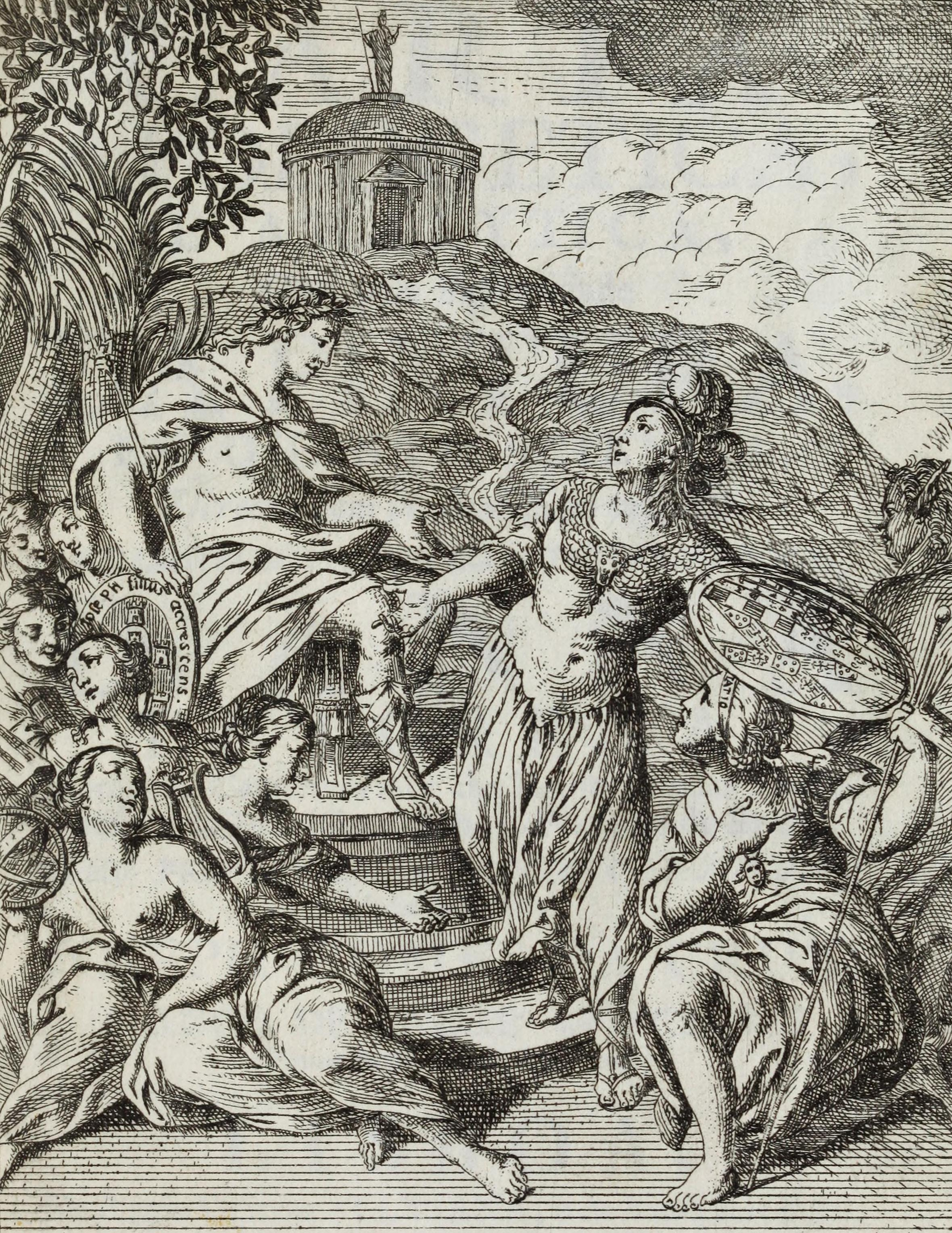 Allegory of Painting: Ana de Lorena, Duchess of Abrantes (1691-1761), depicted as Athena protecting Painting. 1752 engraving by Manuel José Gonçalves (after a drawing by André Gonçalves) featured on the frontispiece of the book Carta apologetica e analytica, que pela ingenuidade da pintura, em quanto sciencia, escreveo com profundissimo respeito à Illustrissima e Excellentissima Senhora D. Anna de Lorena... ("Apologetic and analytical letter that, due to the ingenuity of Painting as a Science, [the author] wrote with the utmost respect to the Most Illustrious and Most Excellent Lady Anna de Lorena..."), by José Gomes da Cruz.